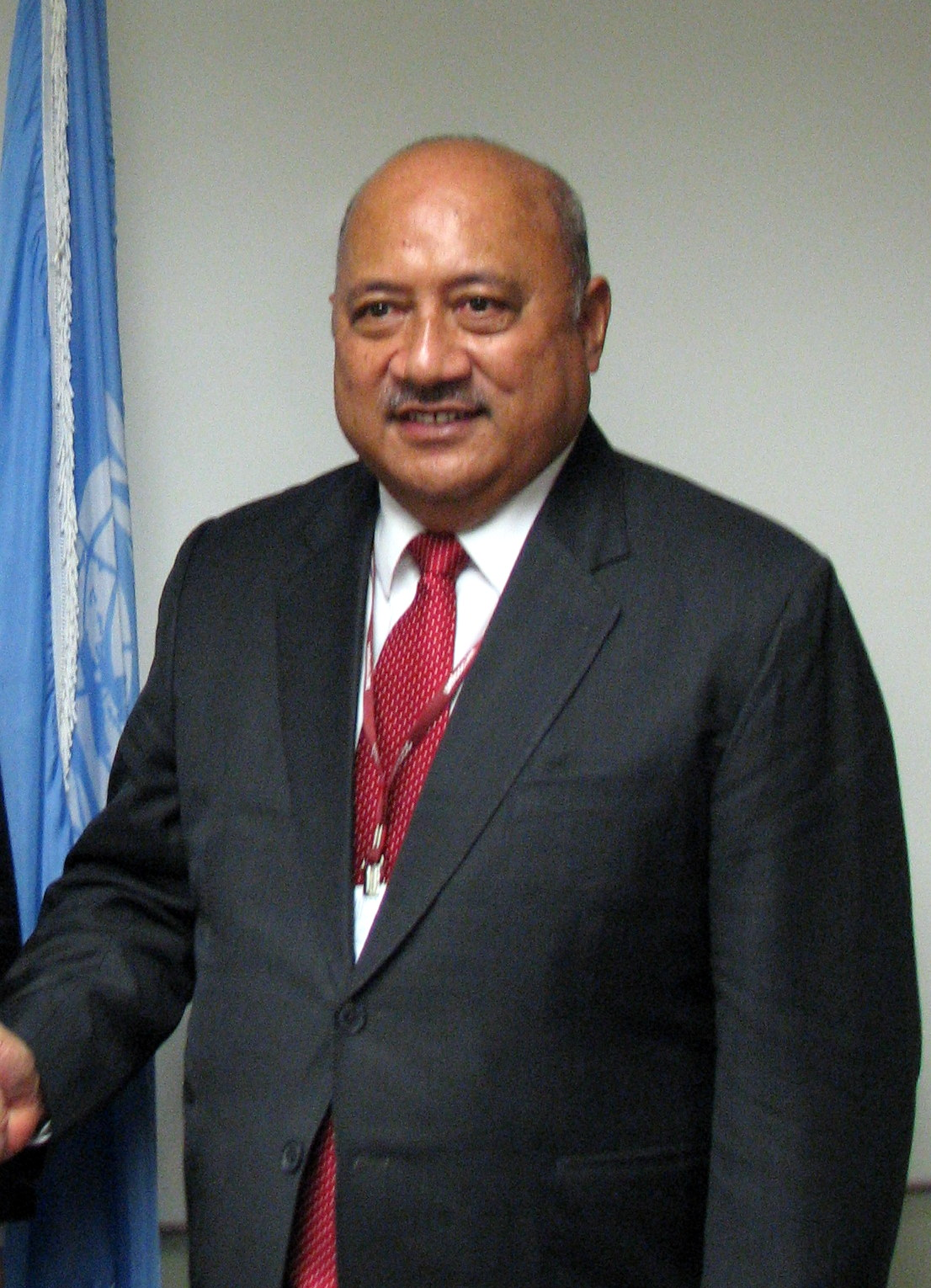 Fijian foreign minister Ratu Inoke Kubuabola in New York.